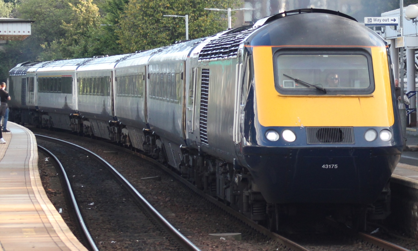 A ScotRail 'Seven Cities' service from Edinburgh to Aberdeen passes through Inverkeithing between power cars 43175 and 43143.